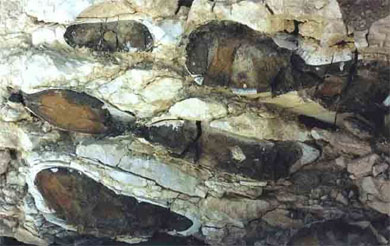 Flint Concretions in Chalk of Nitzana formation (Eocene) Israel